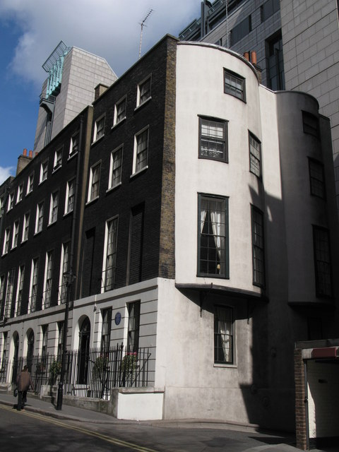 Houses in Craven Street, WC2. Shows the location of 1295526.